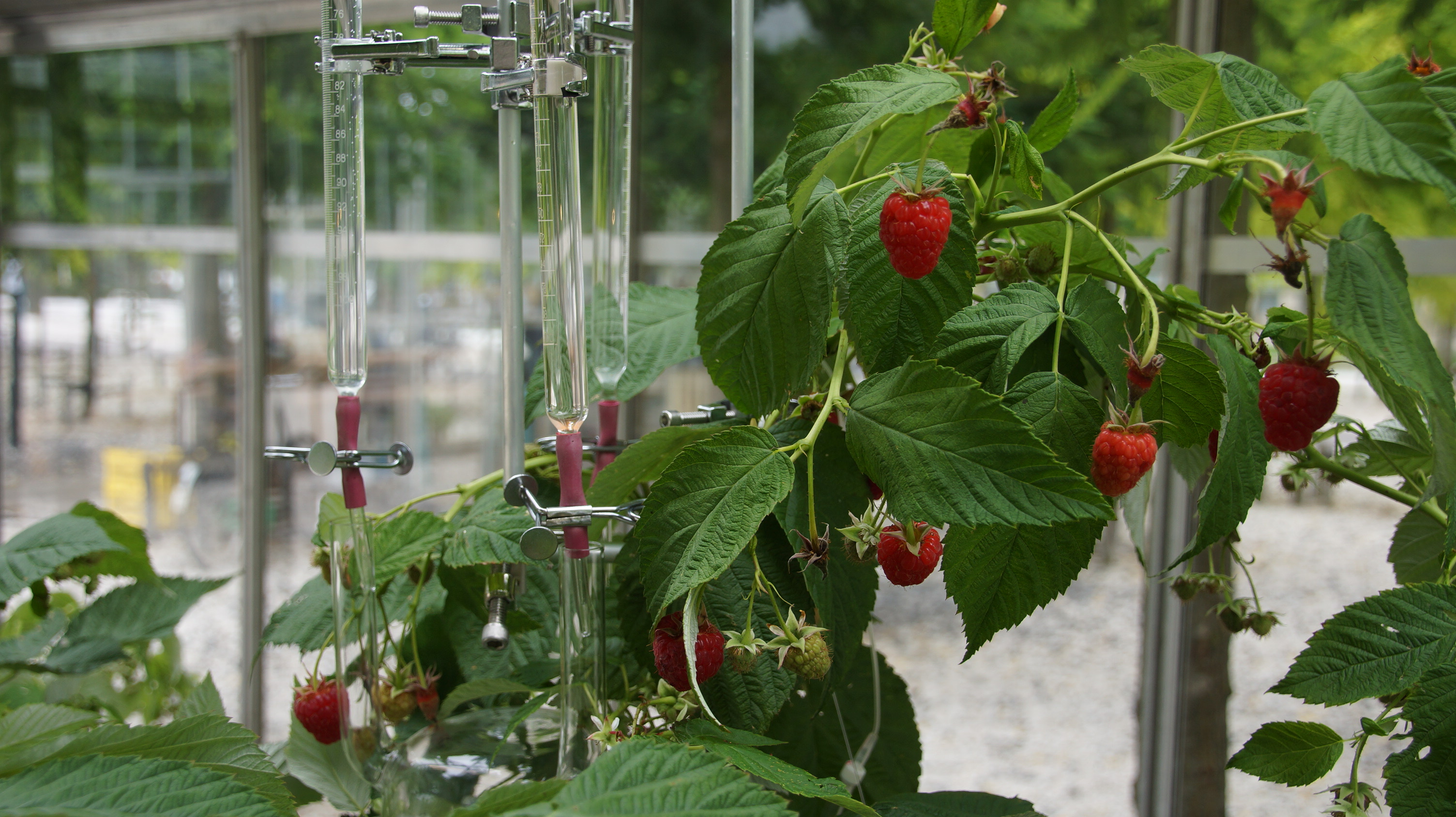 Rusty Knives by Revital Cohen and Tuur van Balen Revital Cohen and Tuur van Balen from the United Kingdom combined at the World Food Festival from 18 September to 27 October 2013 in Rotterdam design with biology, technology, science and curiosity. The observed that when an animal is slaughtered, it produces stress hormones. They added these hormones to raspberries using a bespoke feeding system, by which tehy could capture the "flavour of fear".